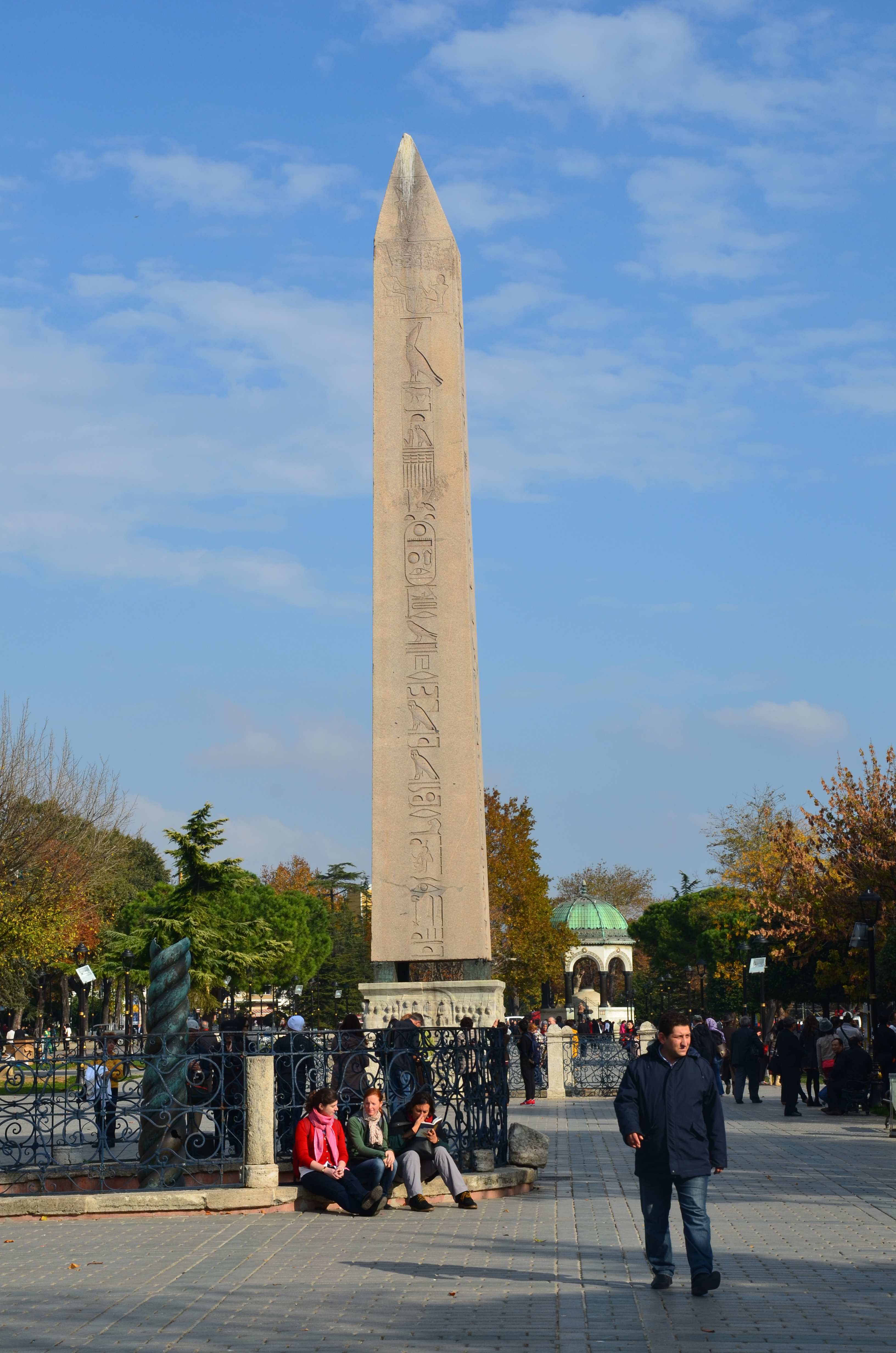 Obelisk of Tuthmosis III, in Square of Horses, Istanbul, Turkey